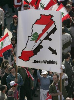 March 14th, 2005